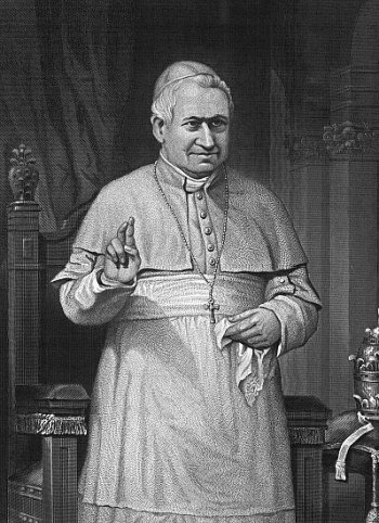 From [1], in the public domain 12:07, 1 January 2003 Magnus Manske 350x482 (54,798 bytes) (From [ in the :en:public domain )